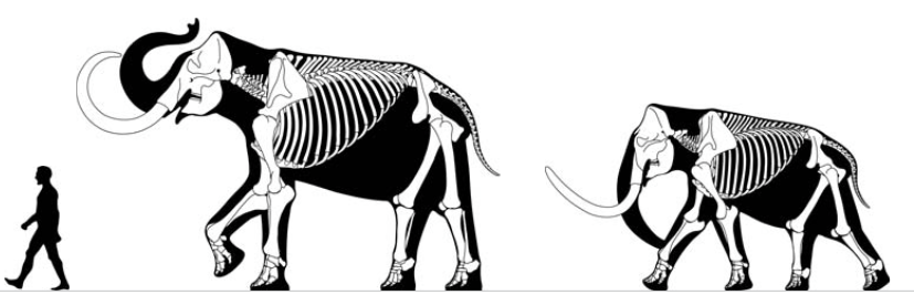 M. primigenius Taymir (Siberian morph; right) sex male age 50 size group I humerus 854 femur 1055 pelvis 1250 267 cm • 3.9 t ￼M. primigenius Siegsdorf (European morph; left) ￼￼sex male age 50 size group II humerus 1100* femur 1330 pelvis 1600 349 cm • 8.2 t All the skeletal restorations are presented on the same scale (1/100). The human figure is 180 cm tall. Mass estimates are in kilograms for small proboscideans and in tonnes for the larger forms. Shoulder heights are in cm. The age (years), sex, size group, femur and humerus greatest length (mm) (in the case of * it refers to the humerus articular length in mm) and pelvis breadth (mm) are included.